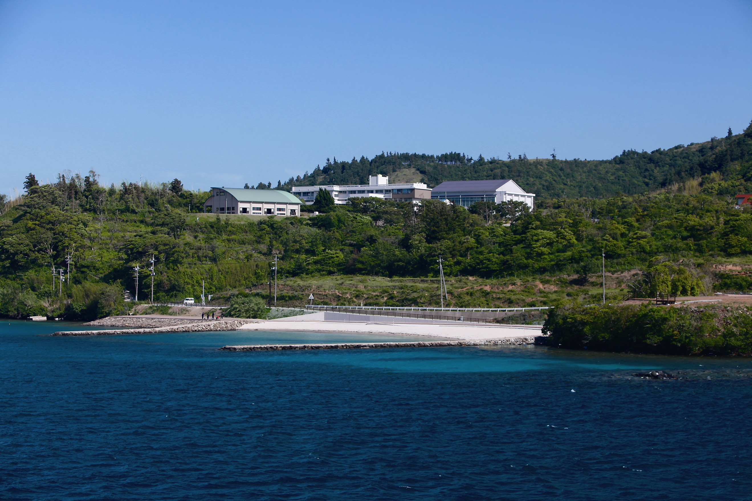 okidozen highschool view